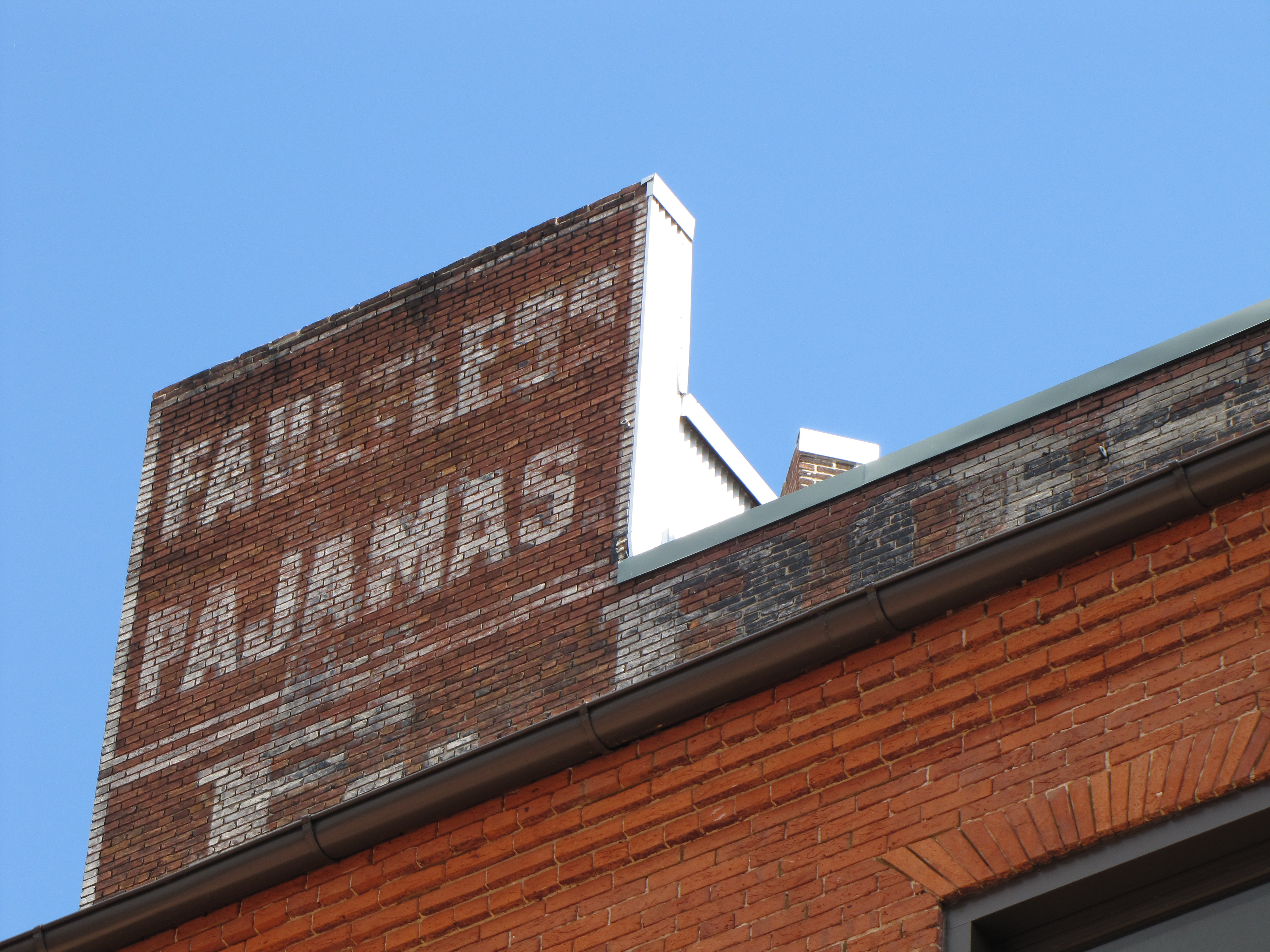 Picture of the back of the Rosenfeld Building in Baltimore, depicting the ad for the Faultless Pajama Company, a nightwear manufacturer.